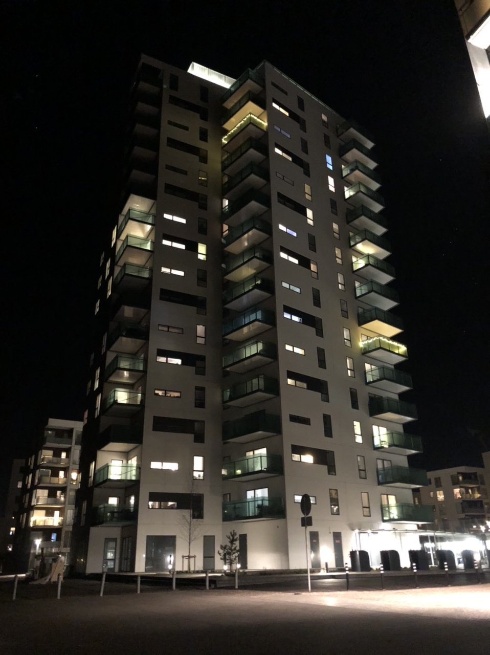 The 17-story high-rise Holbæk Fjordtårn in Holbæk, Denmark photographed in the evening.